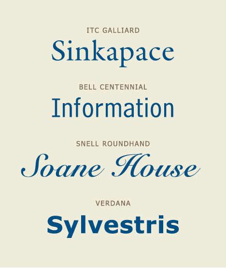 Specimens of typefaces by the type designer Matthew Carter. 14.02.07. Jim Hood